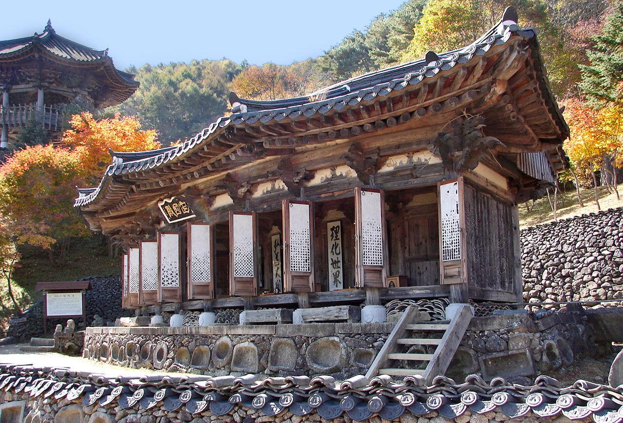 Cheongung, or the main Shrine Hall of the Three Sages, on the grounds of Samseonggung. Samseonggung Shrine is dedicated to the traditional worship of the three mythical creators of Korea: Whanin, Whanung, and Dangun.